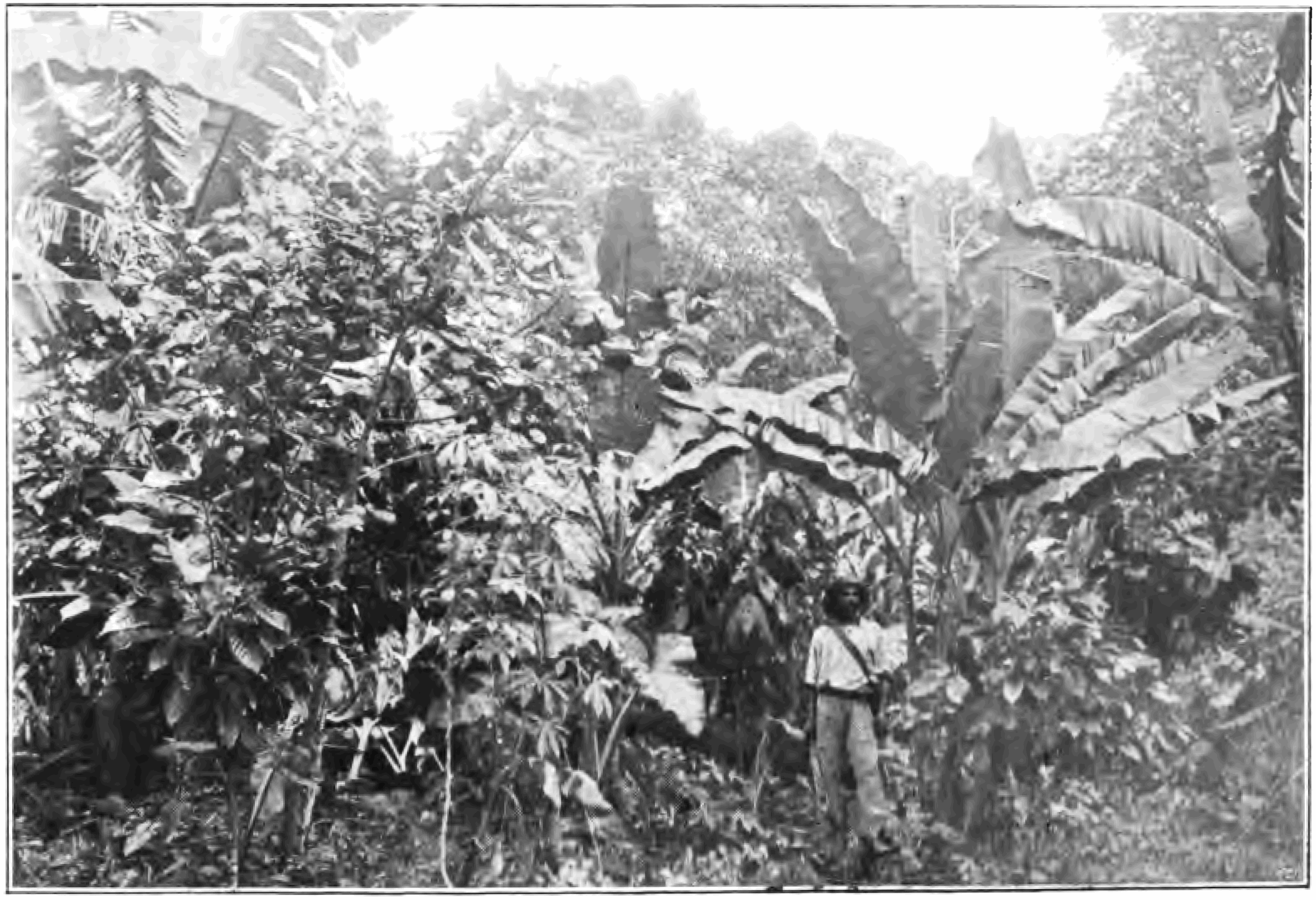 Trinidadian mixed crop cultivation of cacao and banana